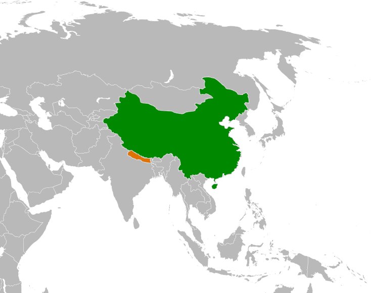 Locator map showing China and Nepal